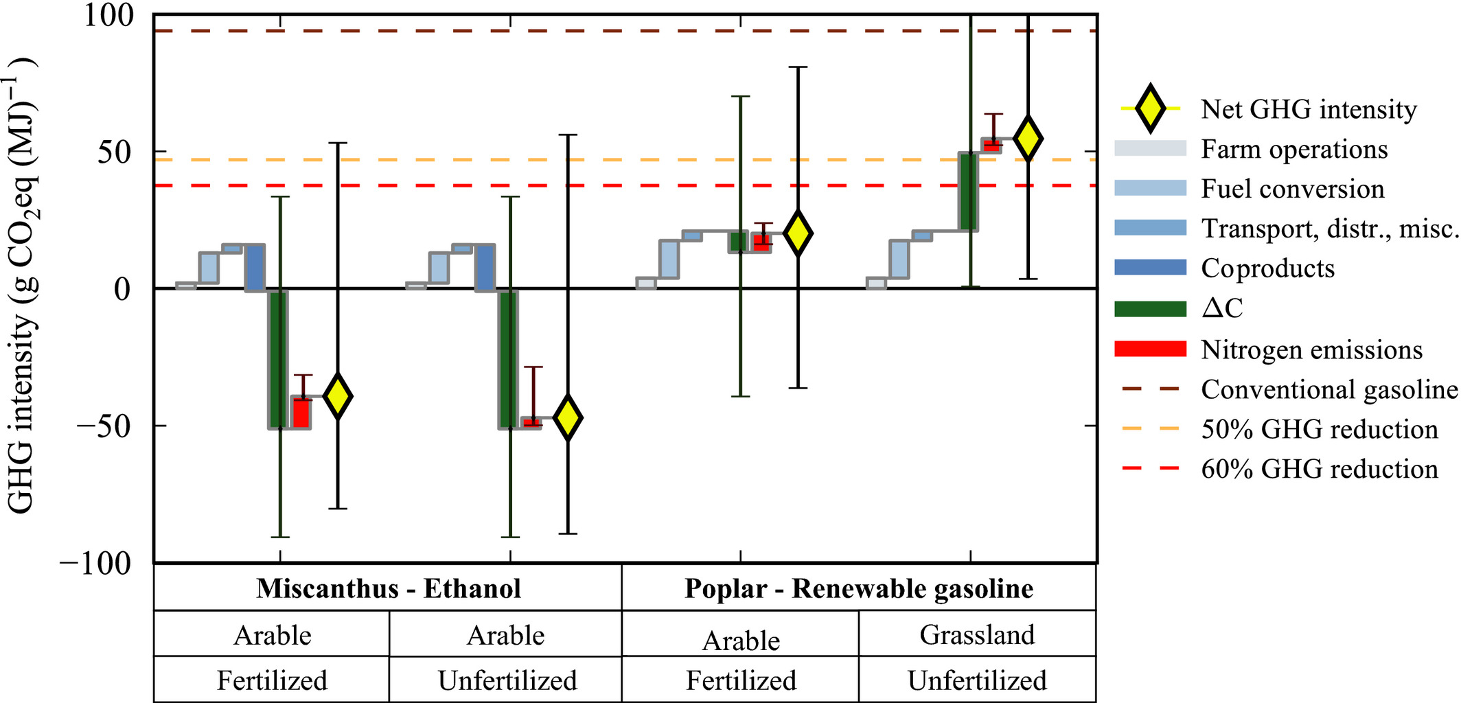 The chart displays the relative contributions and variance of soil carbon stock change (∆C) and nitrogen (N)-related GHG emissions to the total lifecycle footprint of biofuel production via several select production pathways (bioenergy crop, prior land-use, fertilizer regime, and conversion technology). Positive and negative contributions to life‐cycle GHG emissions are plotted sequentially and summed as the net GHG intensity for each biofuel scenario, relative to the GHG intensity of conventional gasoline (brown line) and the 50% and 60% GHG savings thresholds (US Renewable Fuel Standard and Council Directive 2015/1513); orange and red lines, respectively. The calculations are based on trials on marginal land in Europe and USA, with mean yields of 10 and 11.8 t/ha/yr for miscanthus and poplar, respectively. See appendix S1